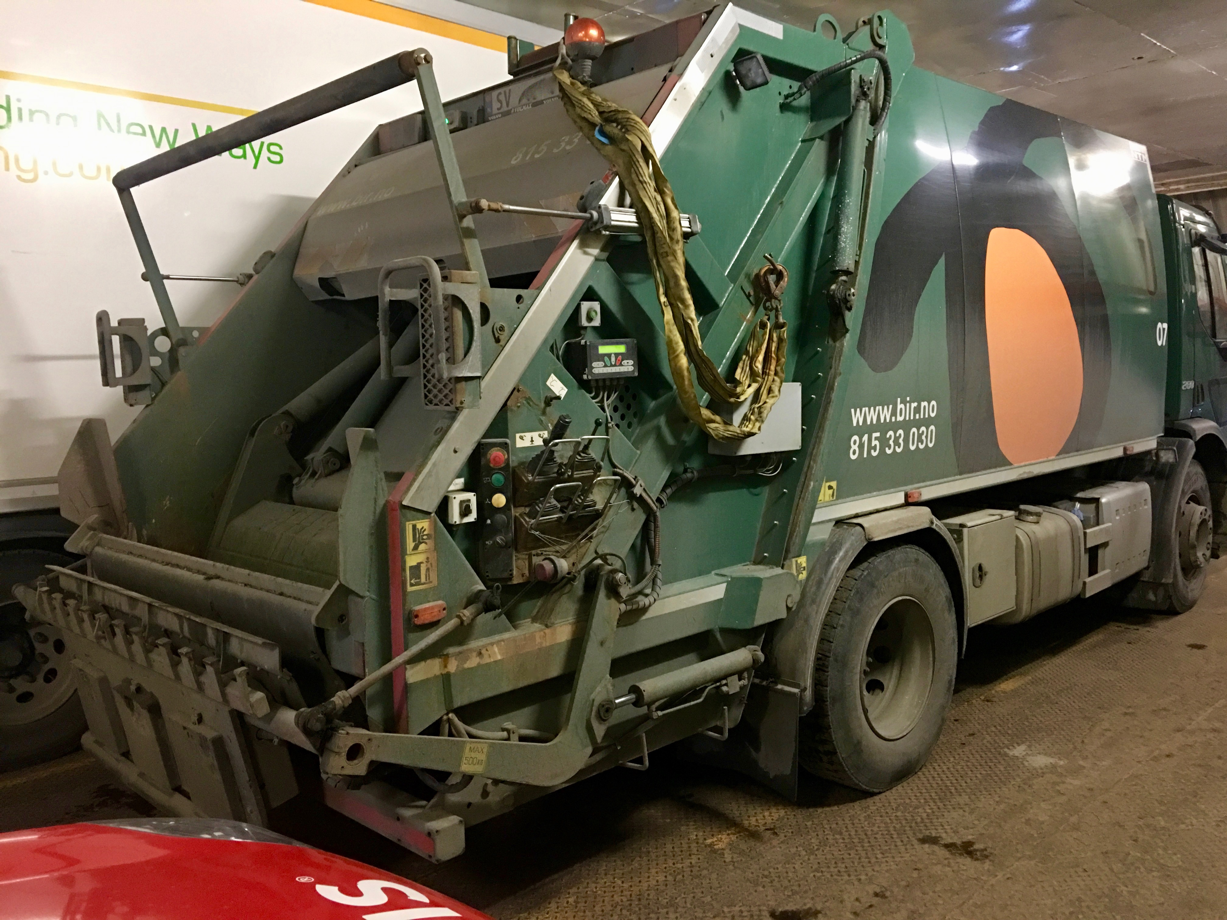 Compacting waste collection truck (søppelbil for avfallshenting) for BIR AS (originally "Bergensområdets Interkommunale Renovasjonsselskap") on board a car ferry between Os and Fusa municipalities, Hordaland, Norway 2018-03-20